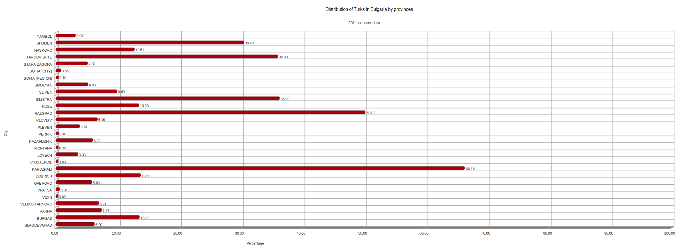 Distribution of Turks in Bulgaria by province, as of 2011.